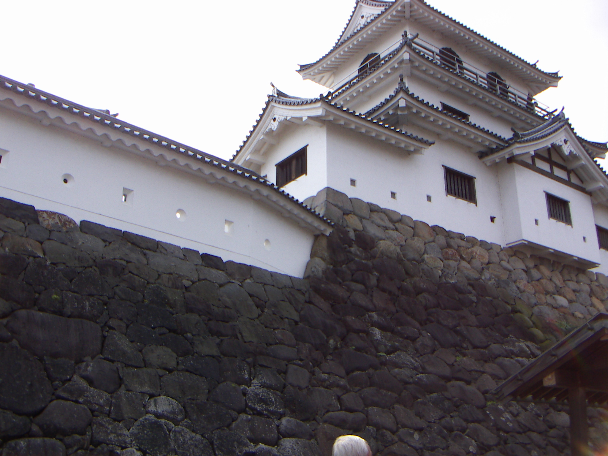 Description: Shiroishi castle in Touhoku Japan. Author: Lordmetroid